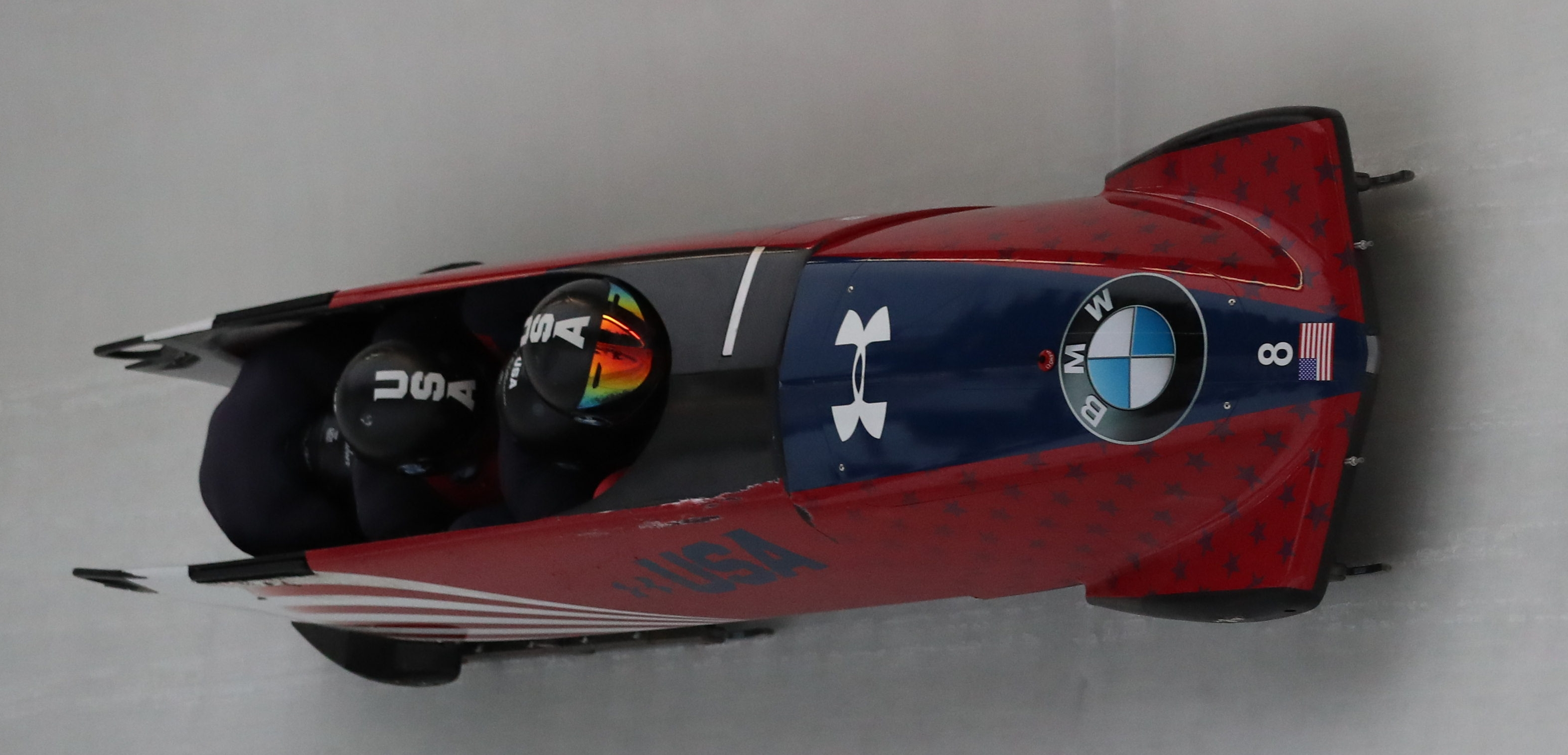 4-man Bobsleigh World Cup race at the 2018/19 Bobsleigh World Cup in Altenberg